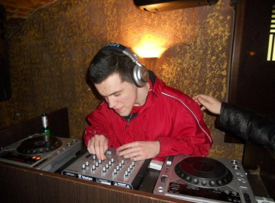 Born for techno afterparty